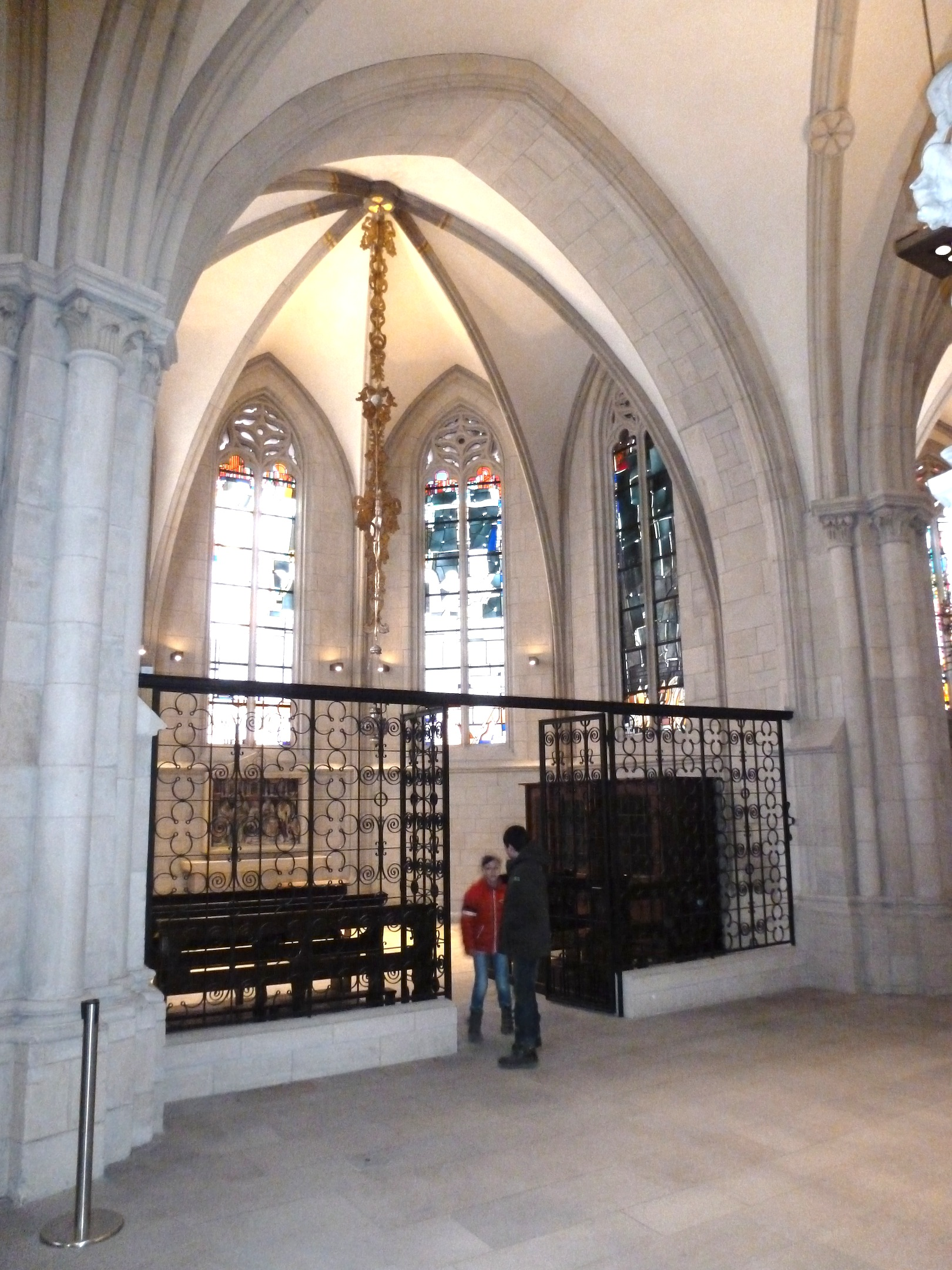 Blick in die Josephs-Kapelle